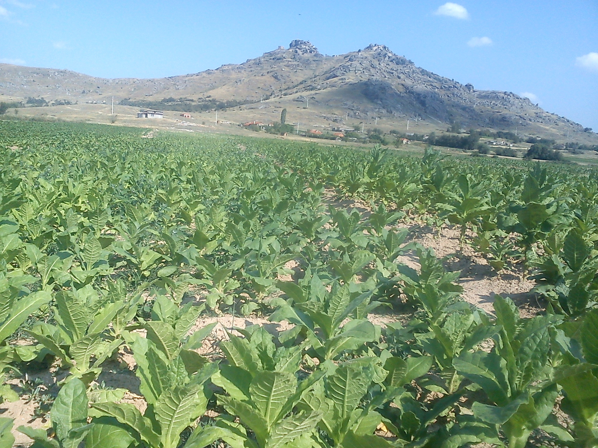 Tobacco field near Prilep, Republic of Macedonia